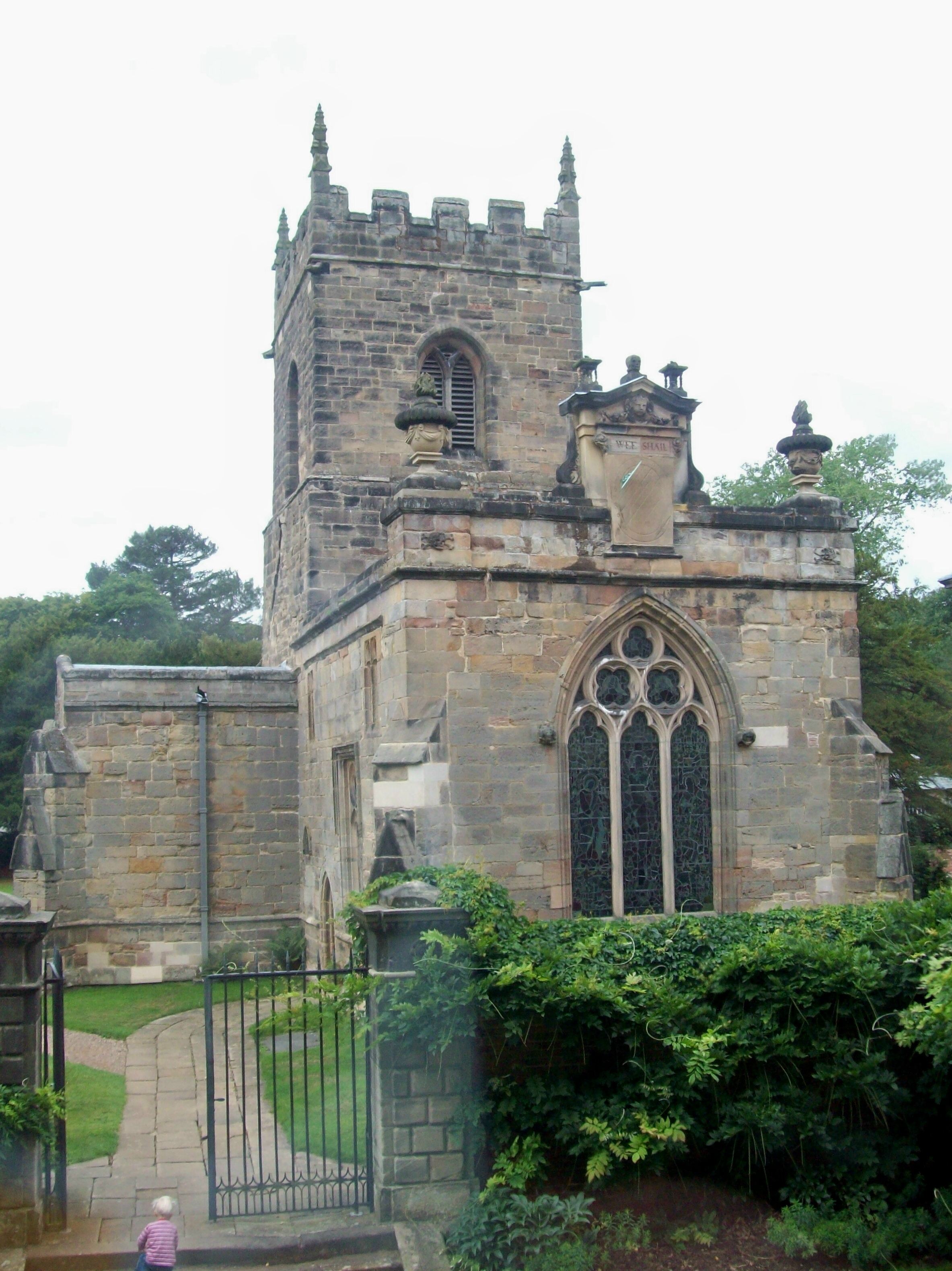 View of All Saints Church, Kedleston; from inside Kedleston Hall.